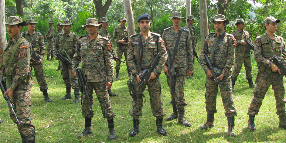 (Best Police Commandos in India)